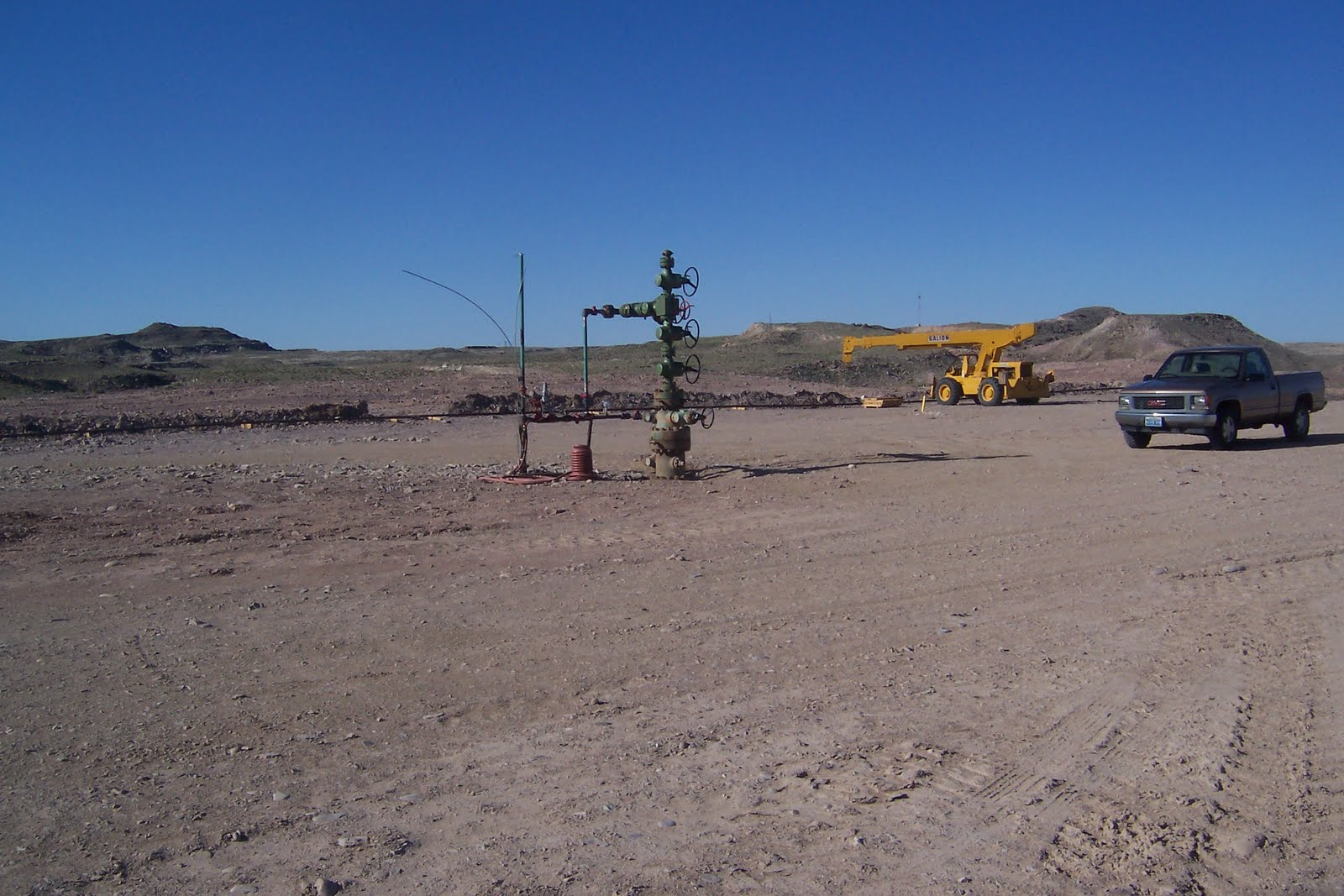 Subject to disclaimers. Subject to disclaimers.